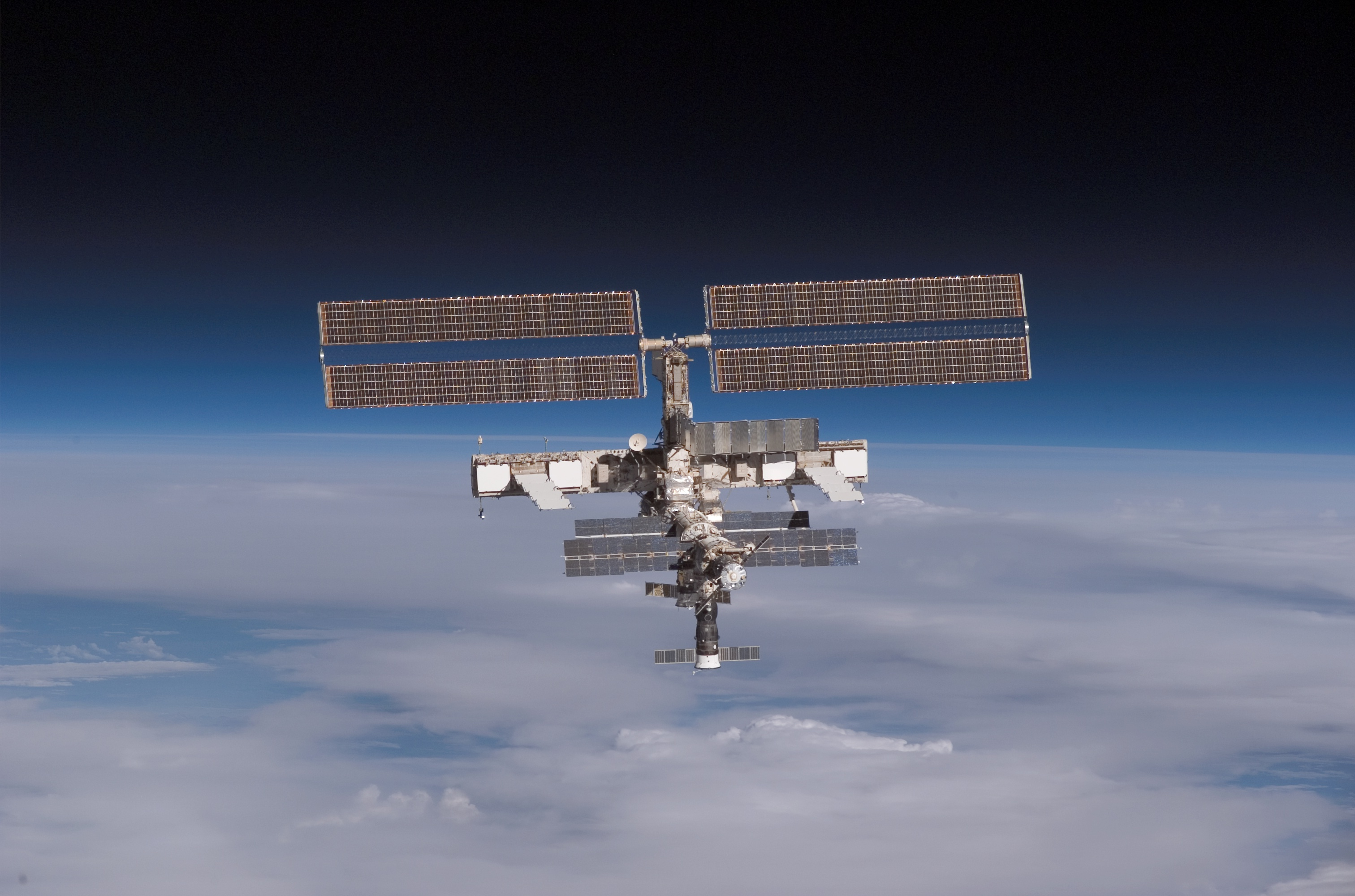 Picture taken by STS-121 crew after departure from the ISS on July 15, 2006.